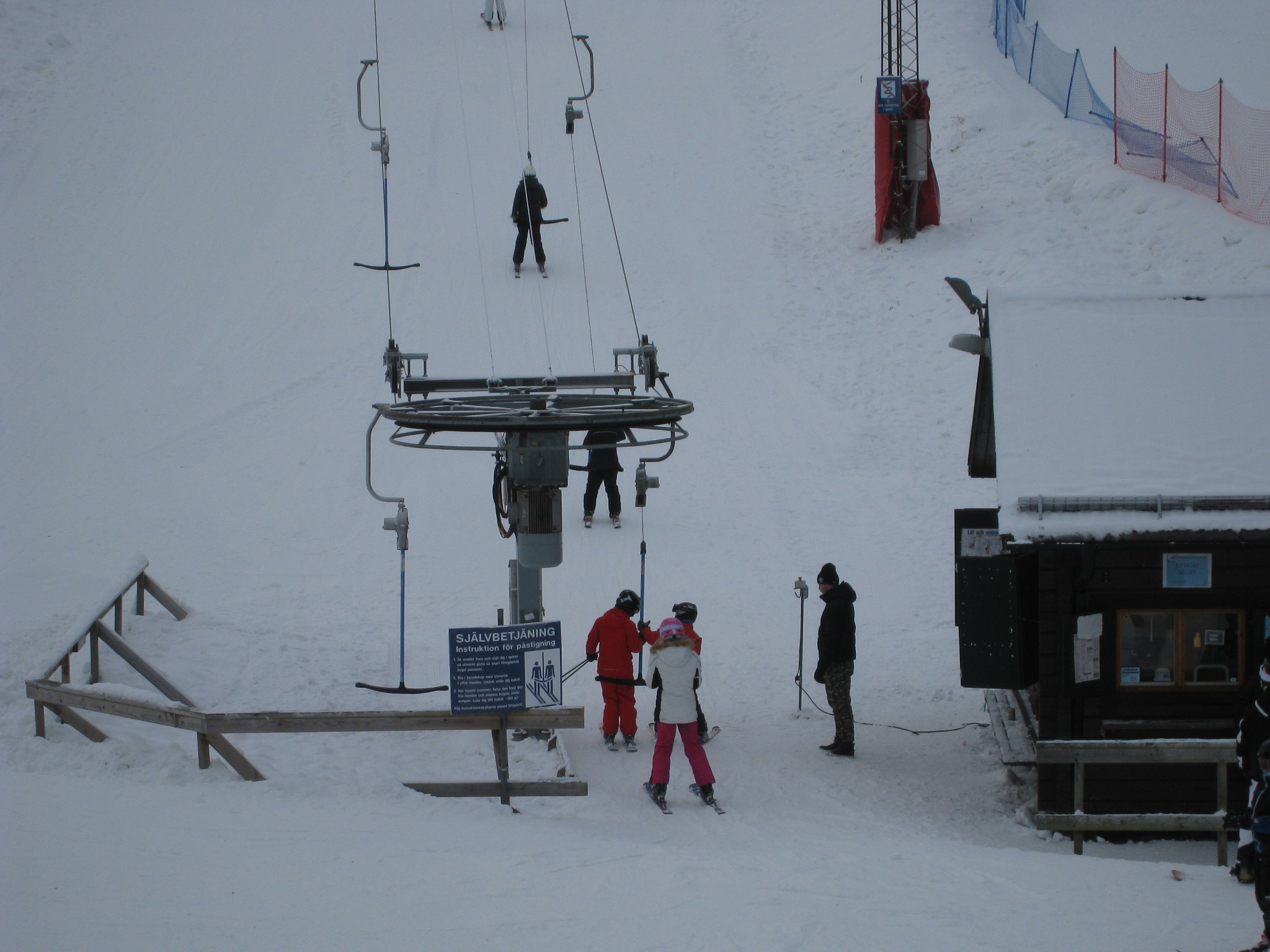 Bruket's ski slope, Järfälla Municipality, western Stockholm.